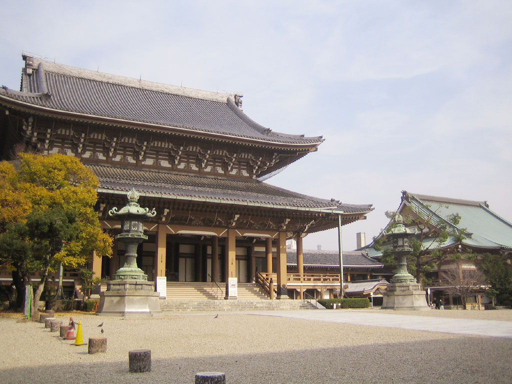 The branch of Higashi-Honganji Temple in Nagoya (東本願寺名古屋別院 Higashi-Honganji Nagoya Betsuin), located in Nagoya, Aichi, Japan